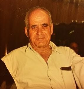 Uzi Geller